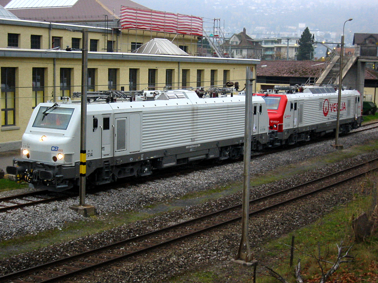 Alstom electro locomotives 37 513 and 37 514 of Veolia Transportation at the SBB railway depot Biel, Switzerland